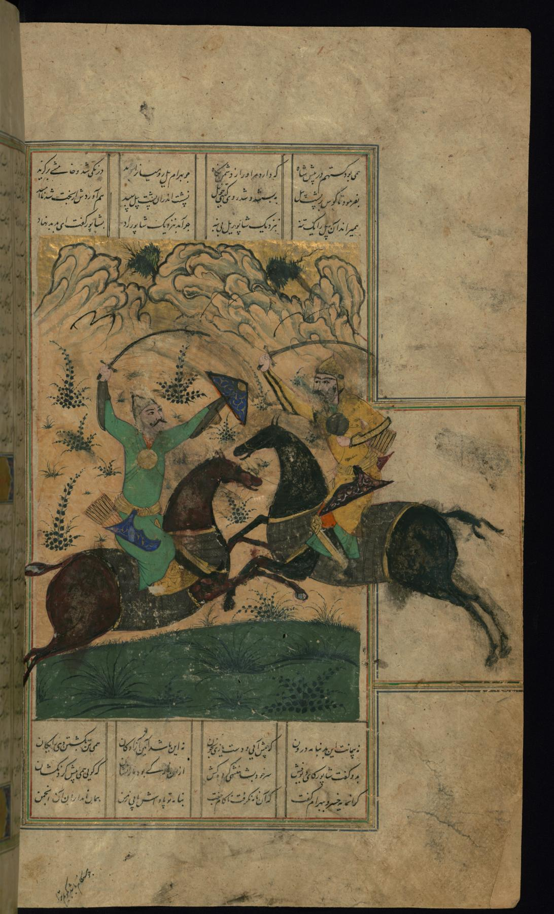 On this folio from Walters manuscript W.603, Khusraw Parviz battles Bahram Chubinah.